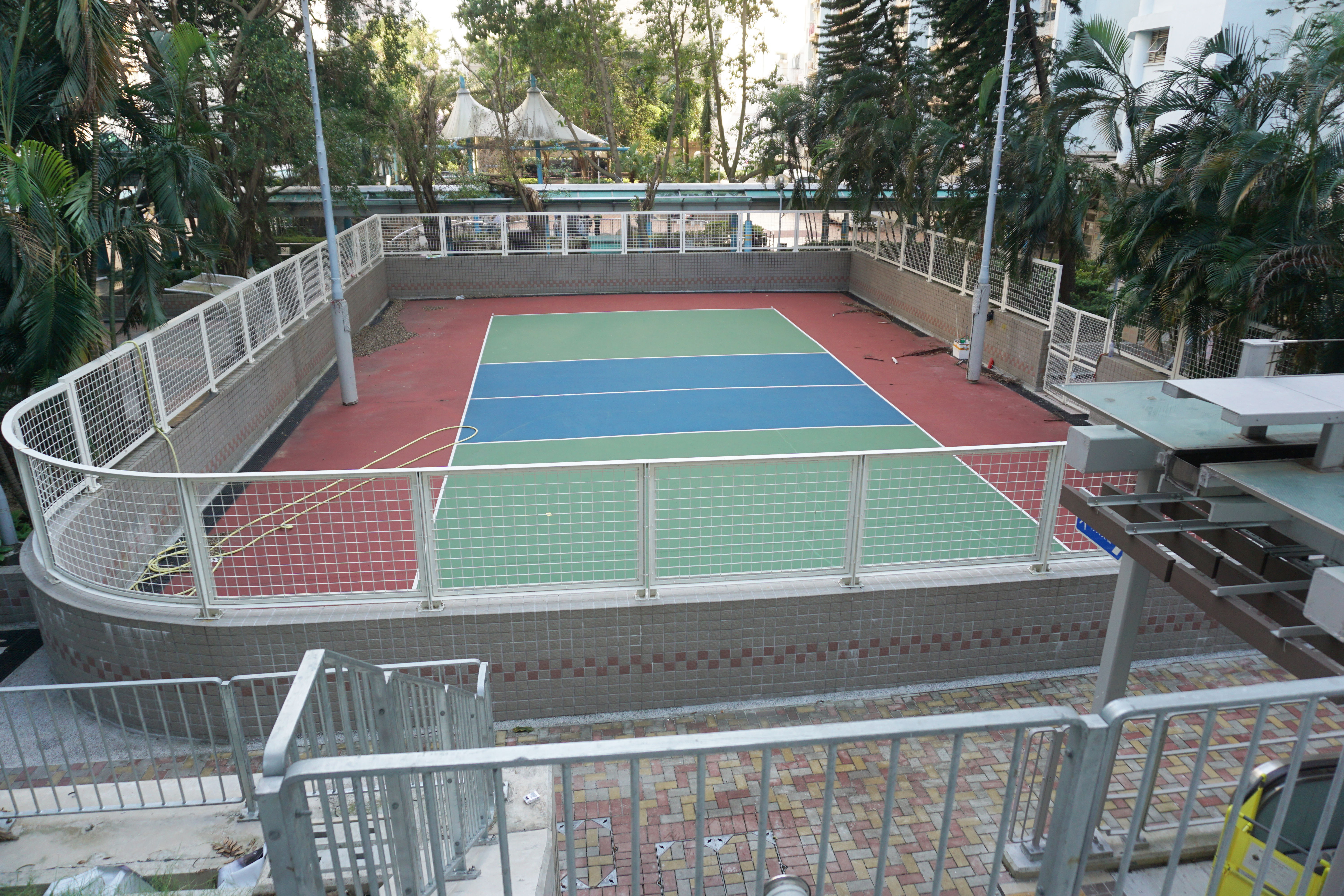 Tsz Lok Estate in Tsz Wan Shan, Hong Kong.